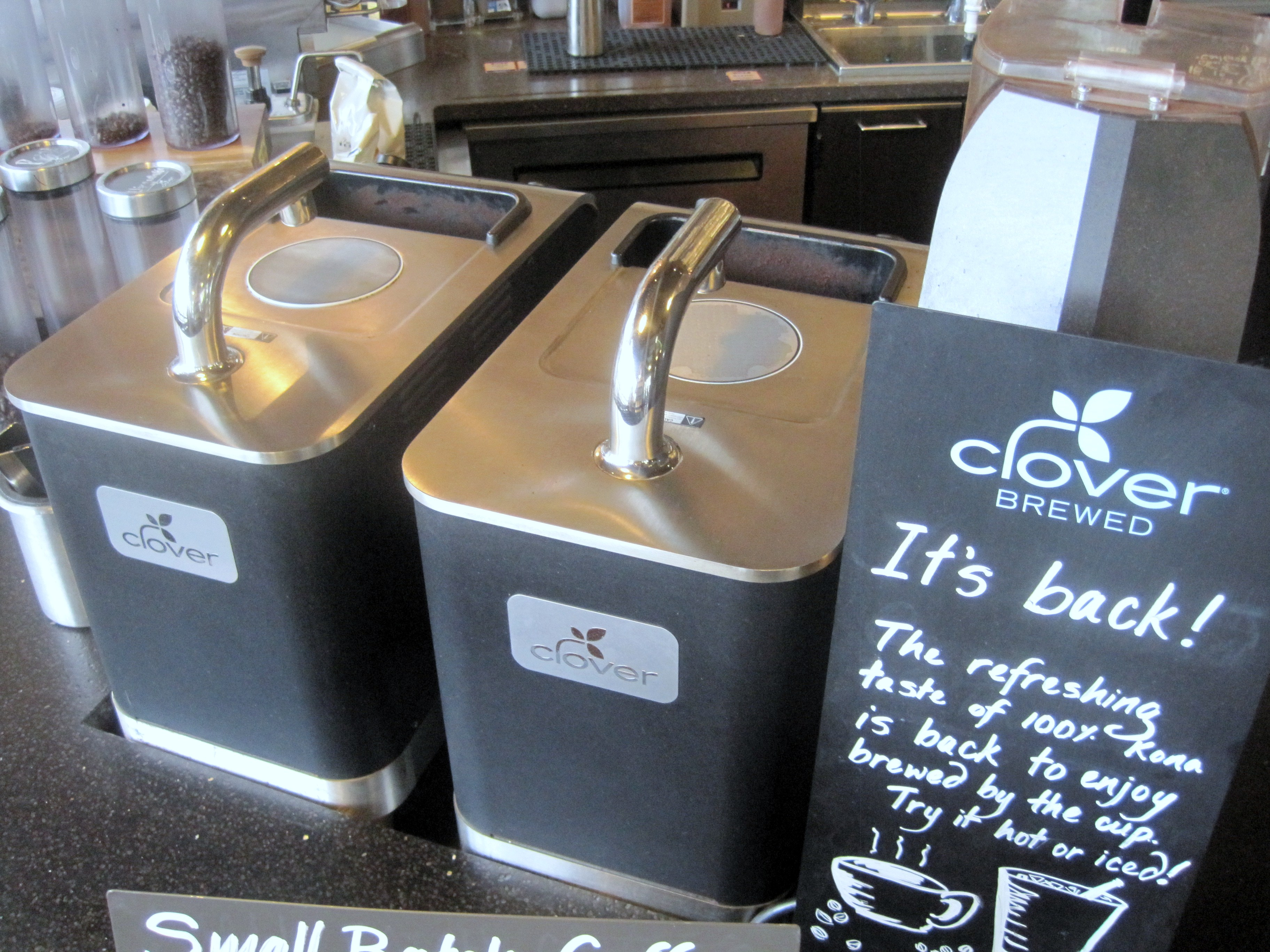 Clover coffee machines at Starbucks Coffee shop in Pike Place Market, Seattle